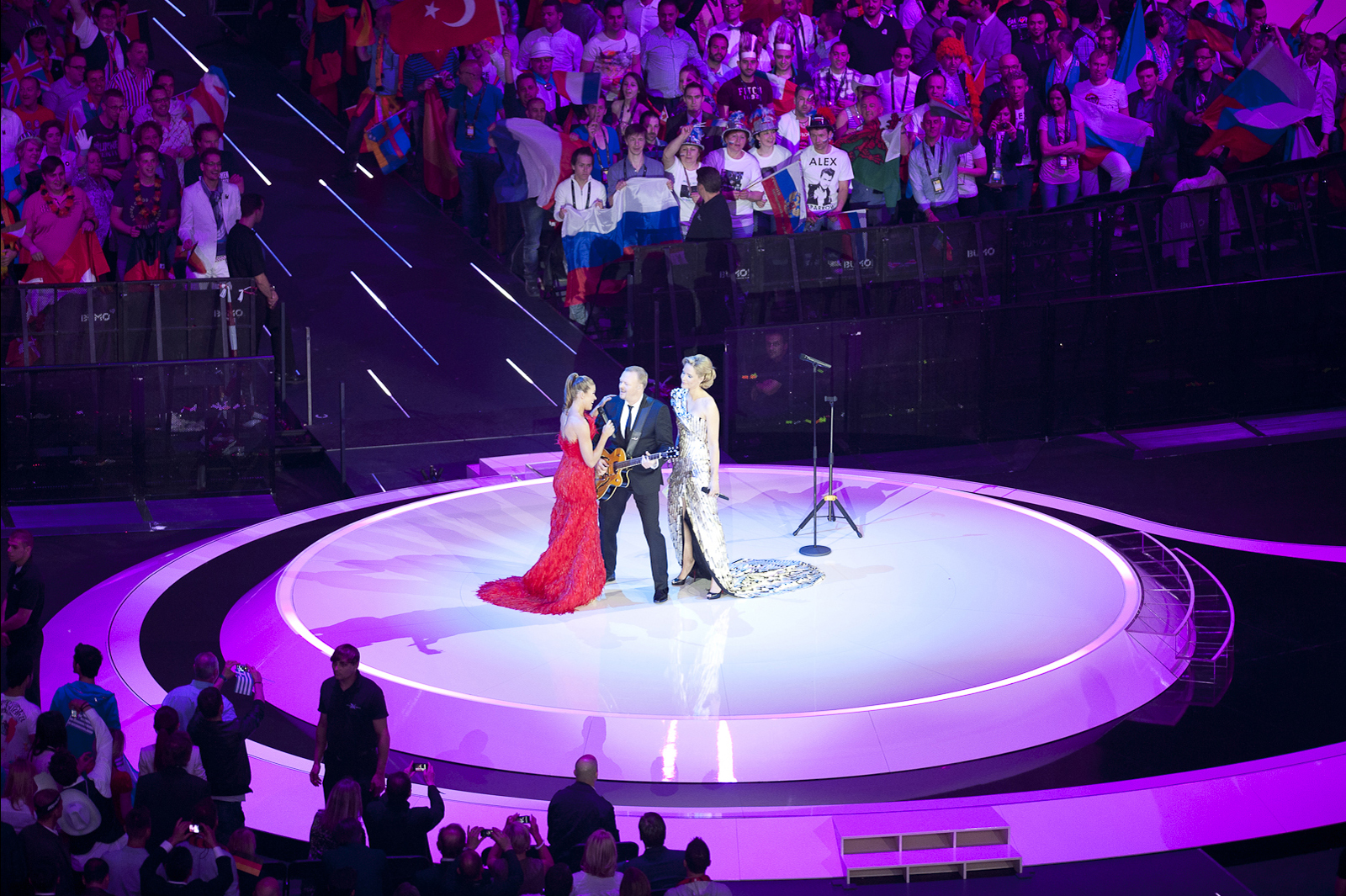 Anke Engelke (left), Stefan Raab (center) and Judith Rakers (right) - presenters at Eurovision Song Contest 2011 in Düsseldorf